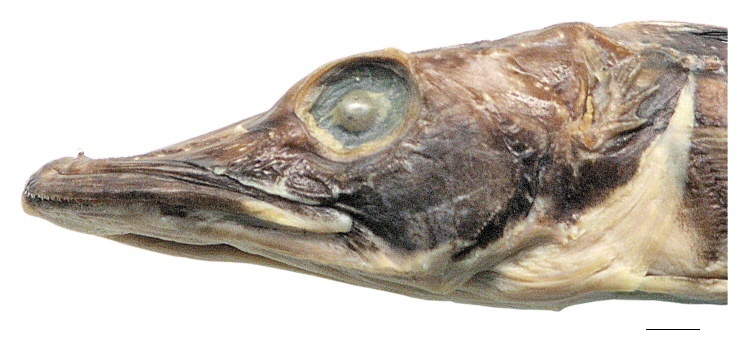 Head of Big-eyed-icefish Channichthys bospori Shandikov, 1995, Kerguelen Is, Antarctica